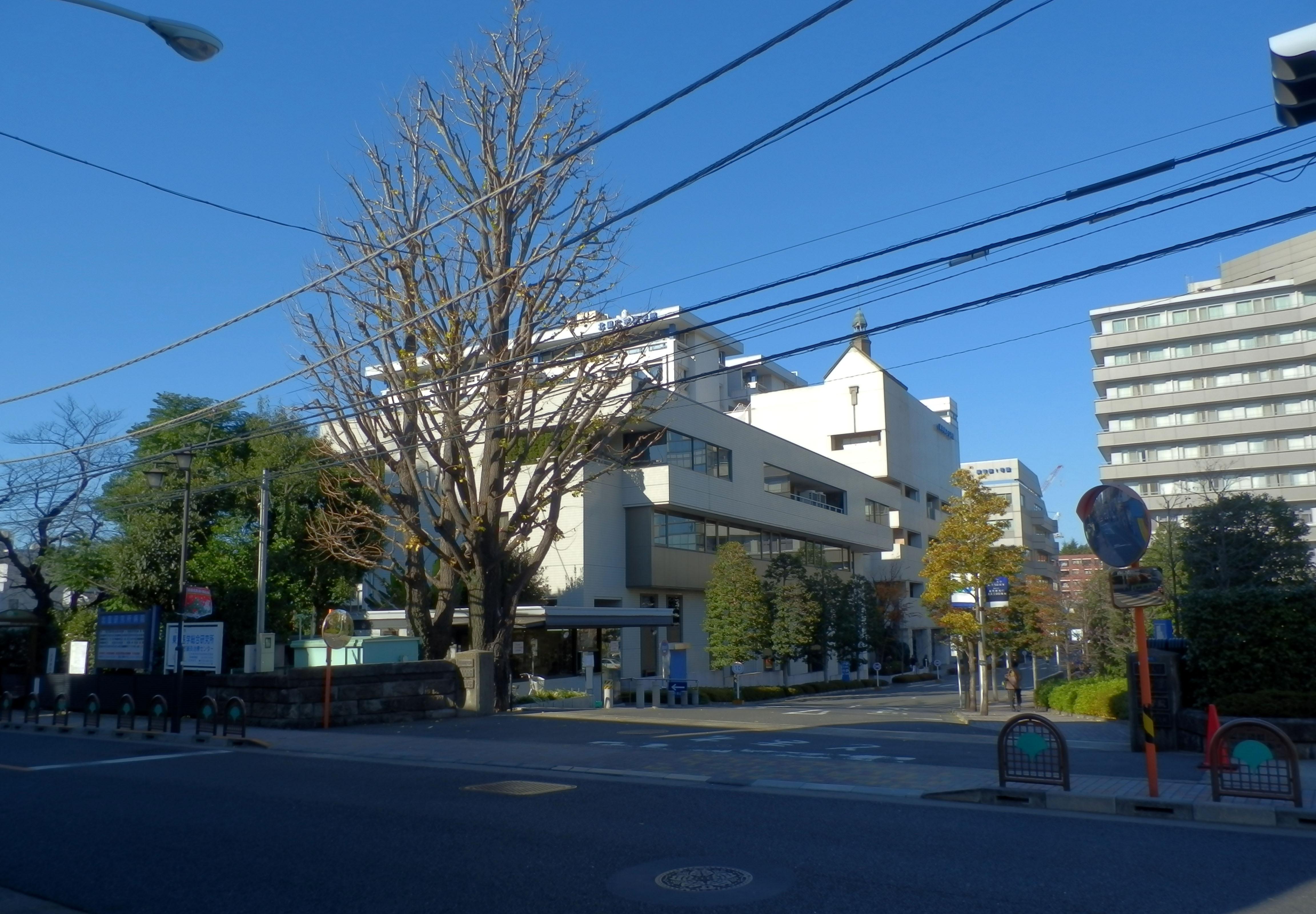 Entrance of Kitasato University (Tokyo, Japan)